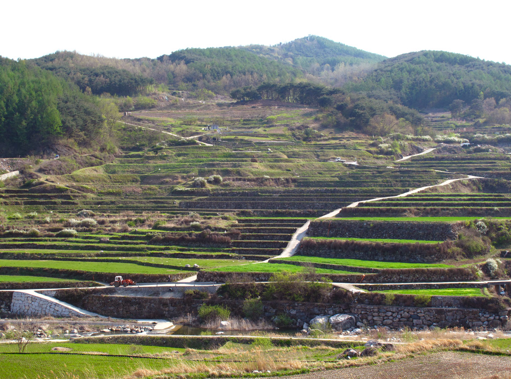 Haeinsa rice terraces near the temple complex, South Korea